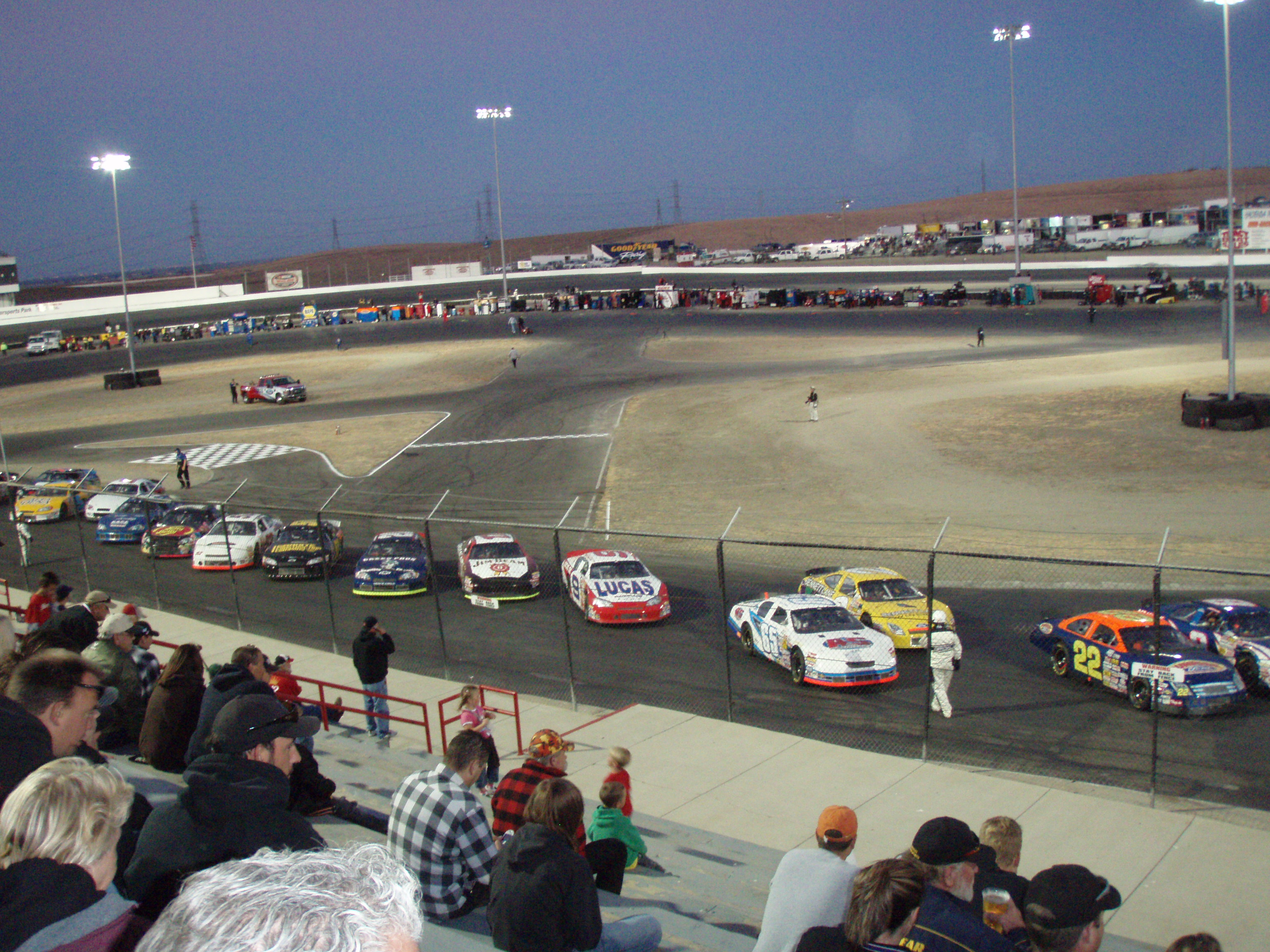 Altamont Motorsports Park. Picture created and taken by me. Gateman1997 20:23, 16 September 2007 (UTC)